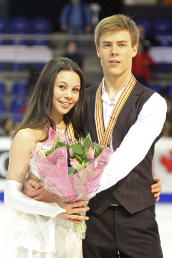 Elena Ilinykh and Nikita Katsalapov at the 2010 World Junior Figure Skating Championships